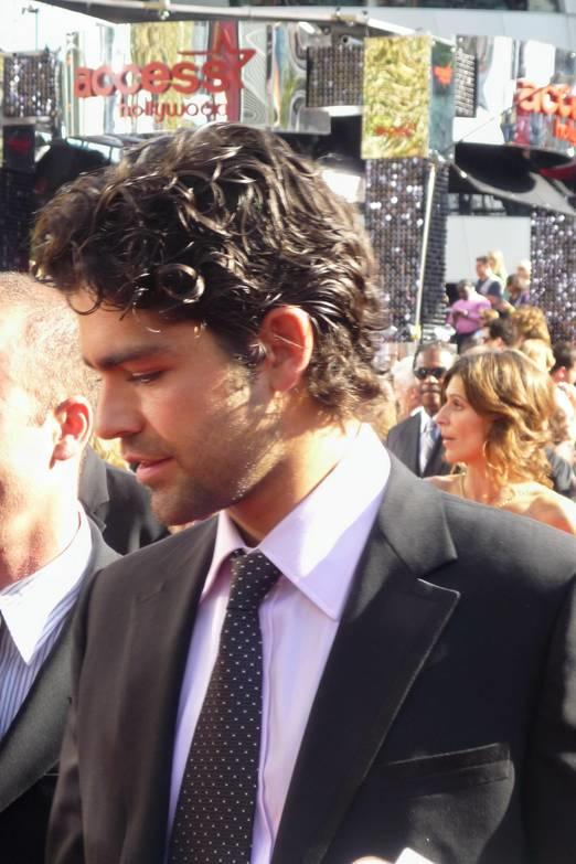 Actor Adrian Grenier at 2008 Emmy Awards.